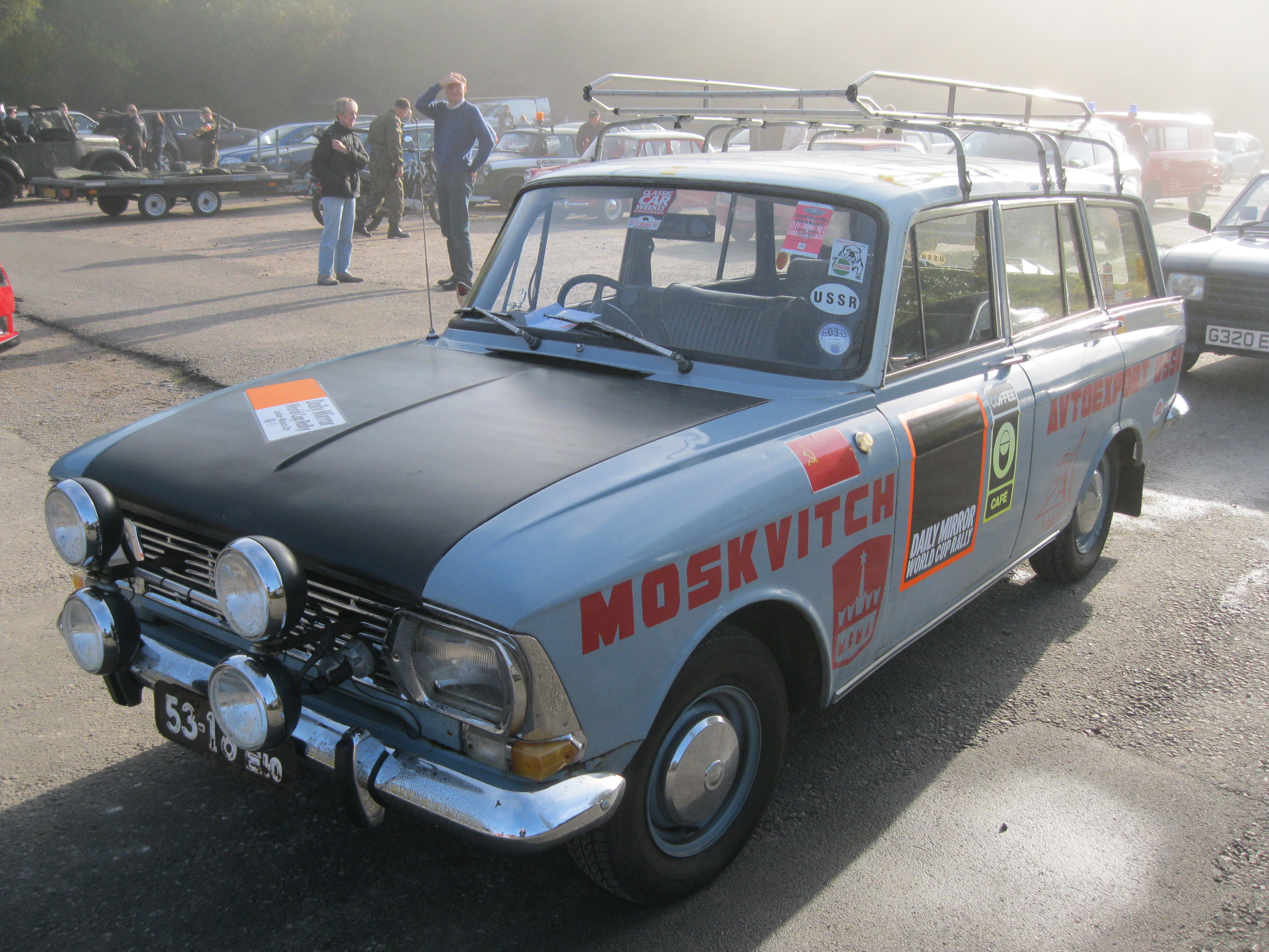 Moskvitch 427 (Replica World Cup Rally Barge) from the former USSR. Spotted at the Red Oktober Day at the Crich Tramway Village, October 2012.